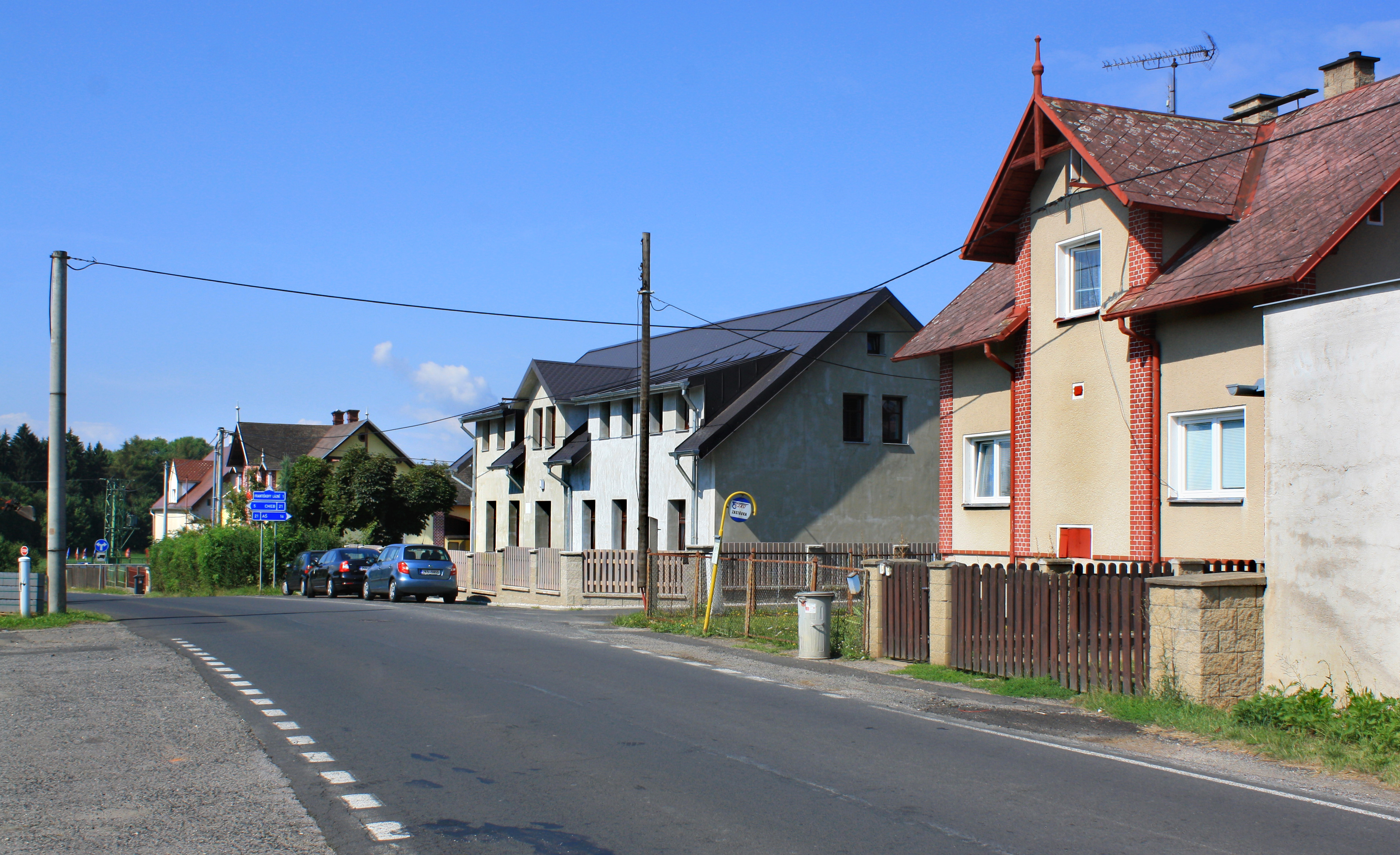 Main read in Aleje-Zátiší, part of Františkovy Lázně, Czech Republic